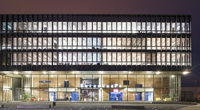 Campus du Havre (Sciences Po)